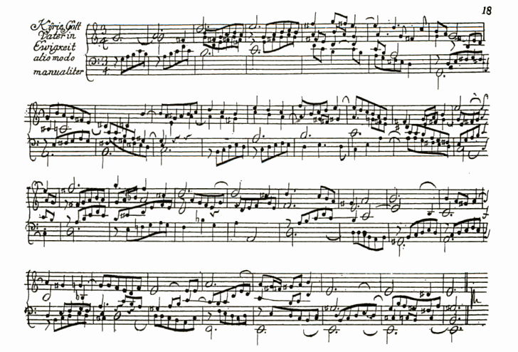 First manualiter Kyrie BWV 672 from original print of Clavier-Übung III